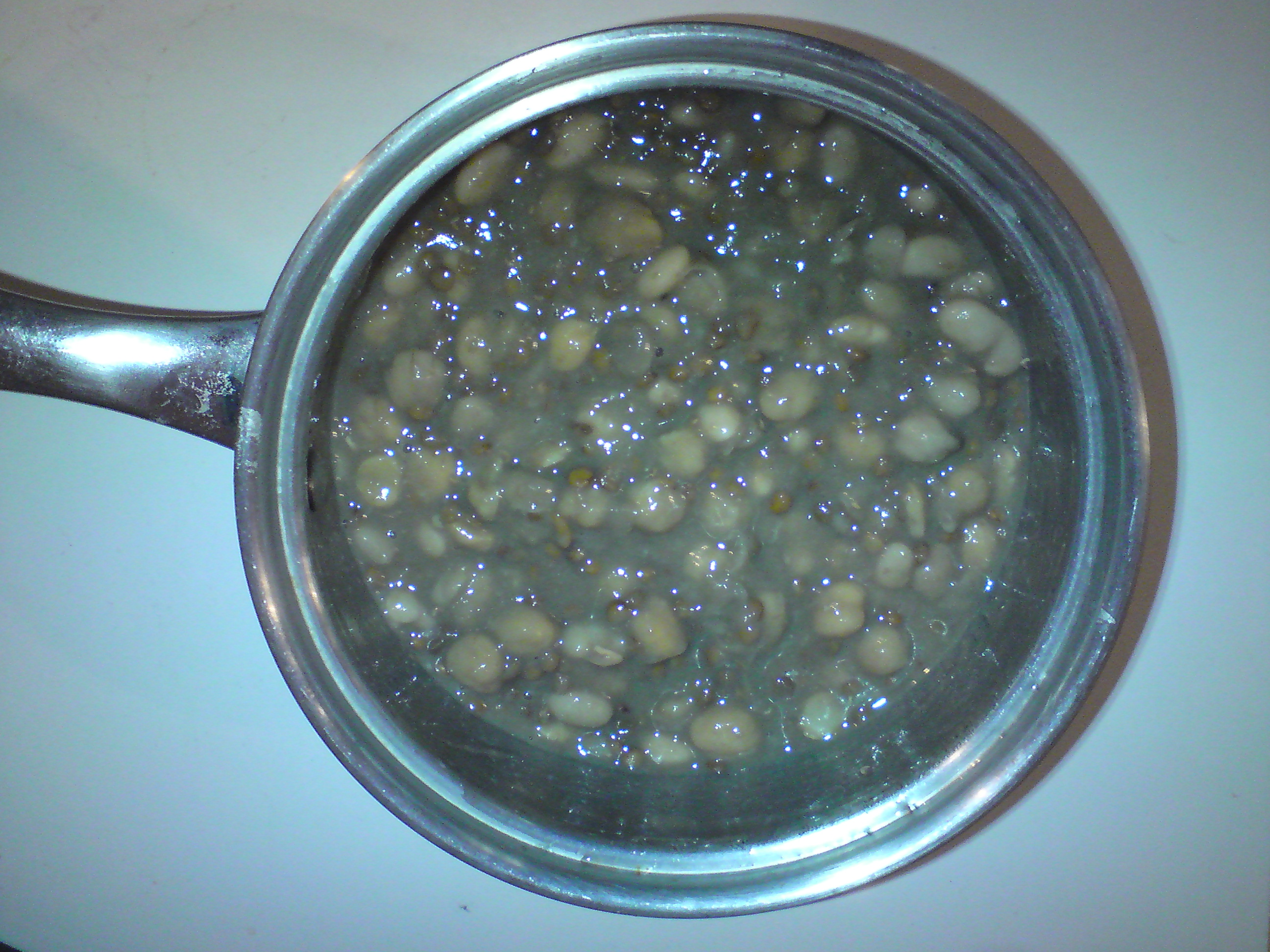 "Bourbourelia" is a mixture of various cereals and grains traditionally prepared in Kefalonia, Greece on the 21st of November in honor of the "Eisodia ths Theotokou" or "Entrance into the Temple of the Virgin Mary" day.